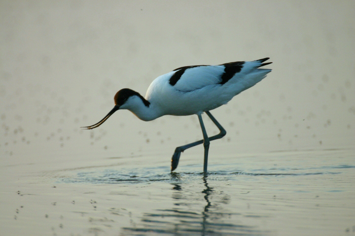 Pied avocet (Recurvirostra avosetta), Mekszikópuszta, Hungary